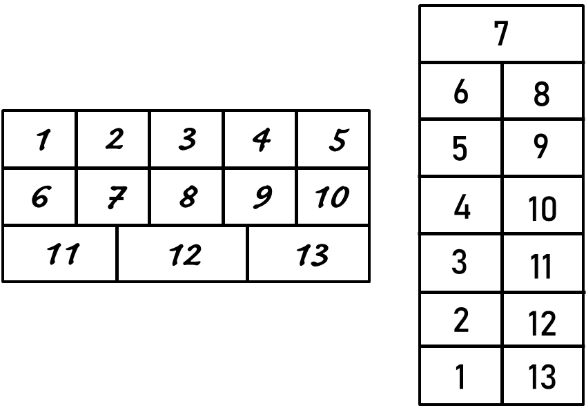 Two example scoring layouts for banking games